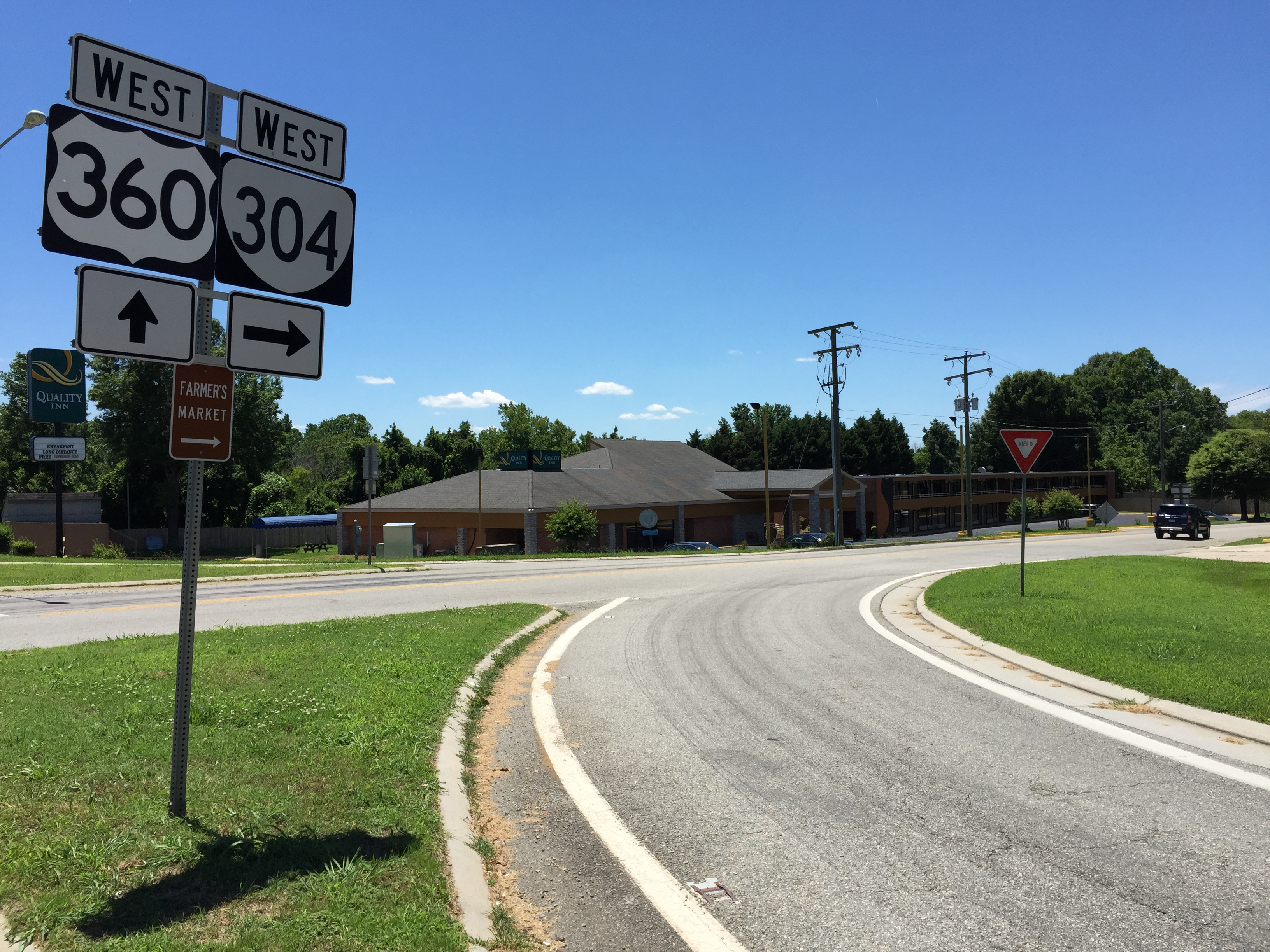 View west along Virginia State Route 304 (Seymour Drive) at U.S. Route 360 (John Randolph Boulevard) in South Boston, Halifax County, Virginia